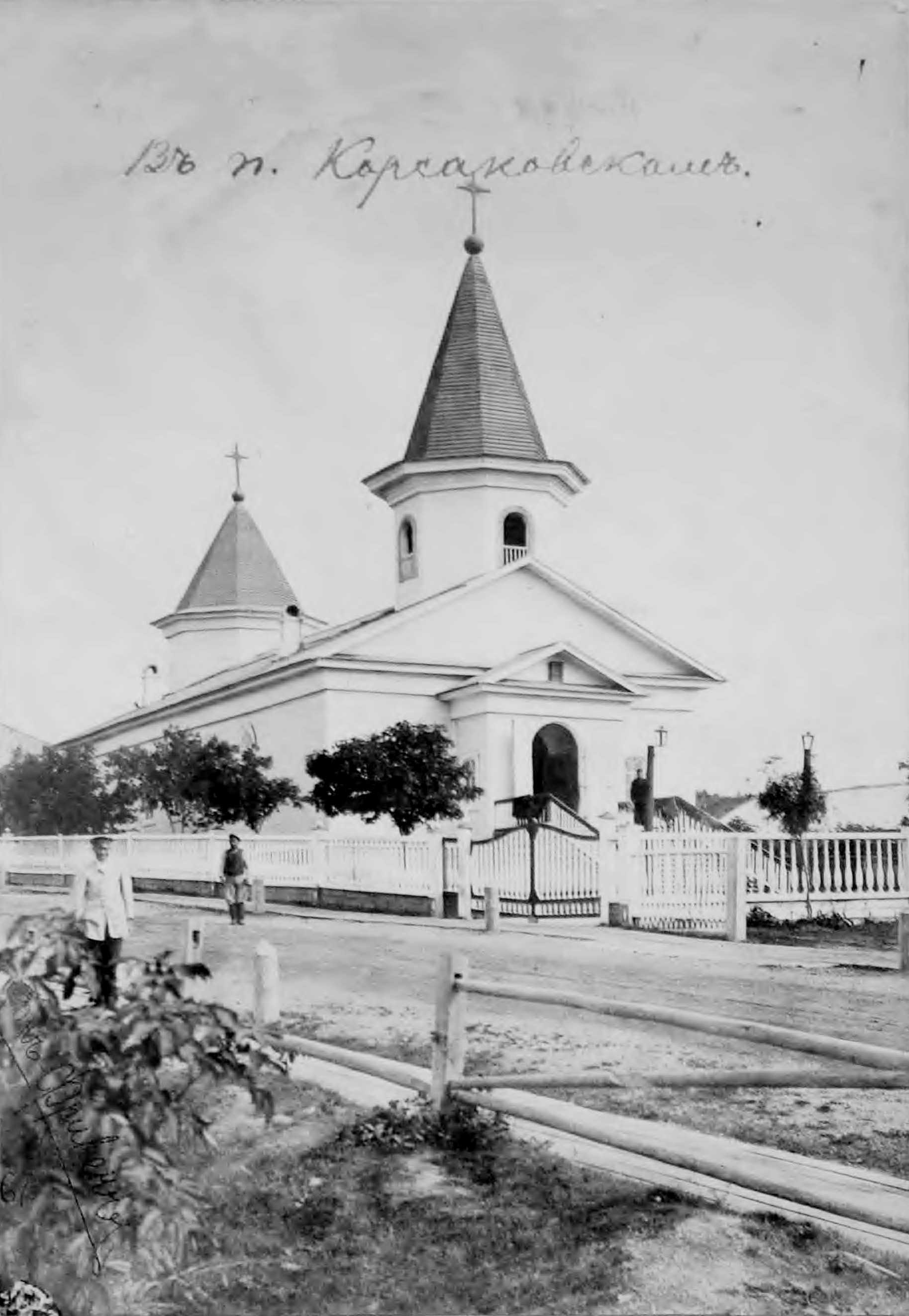 Orthodox church of Korsakovsky (Sakhalin, 1894)